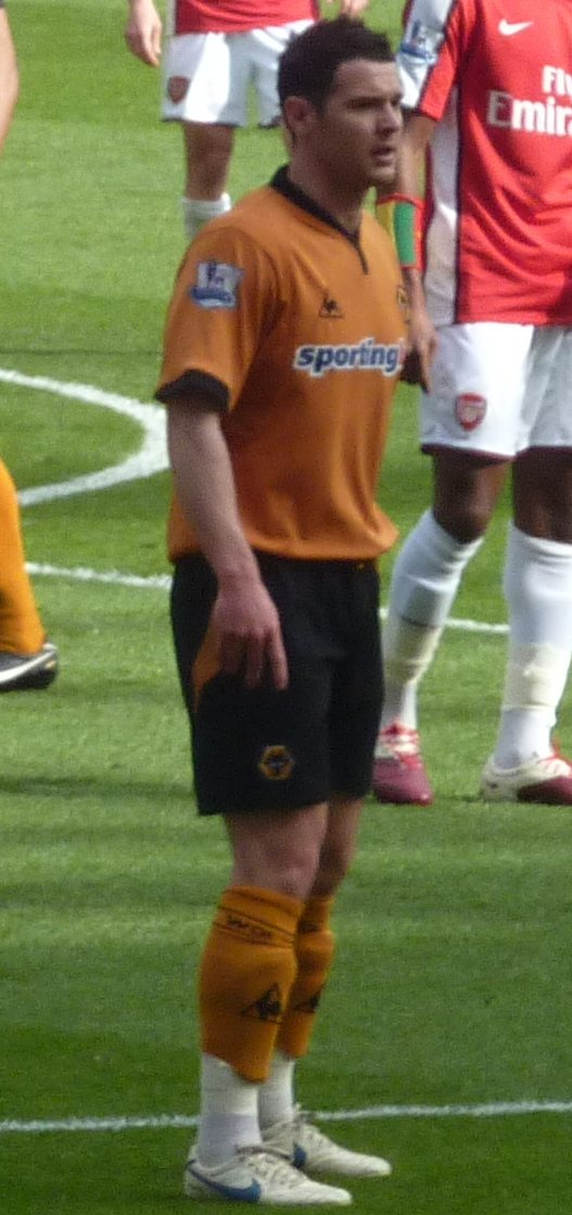 Matt Jarvis, cropped from Arsenal vs Wolves